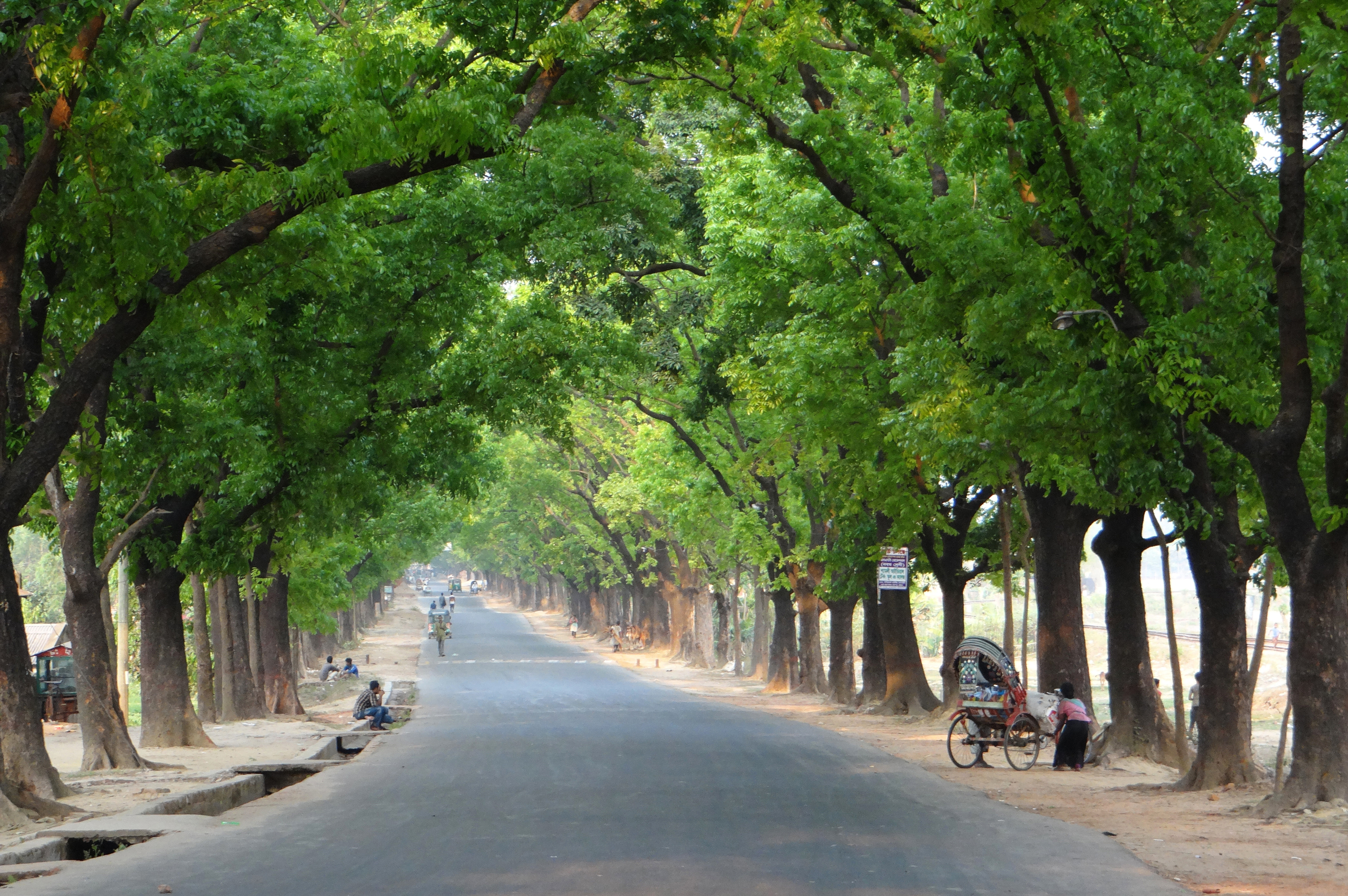 Chittagong University Road, Hathazari, Chittagong